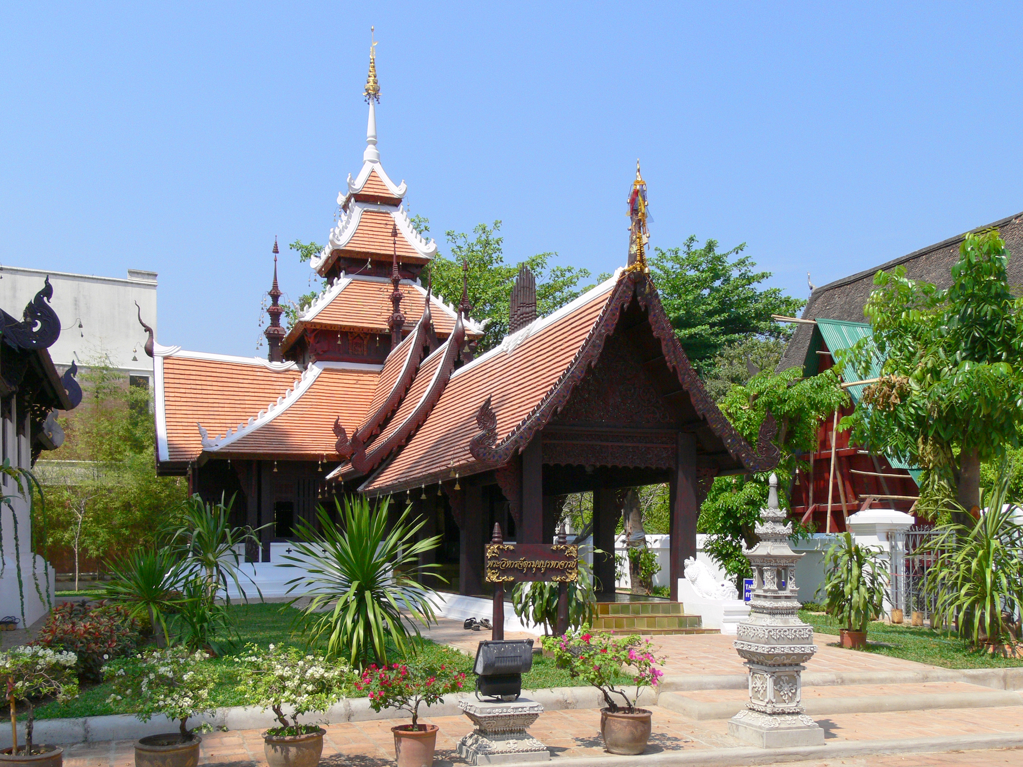 Garden and entry pavilion at Phra Wihan Cha Tu Ramut Buraphachan